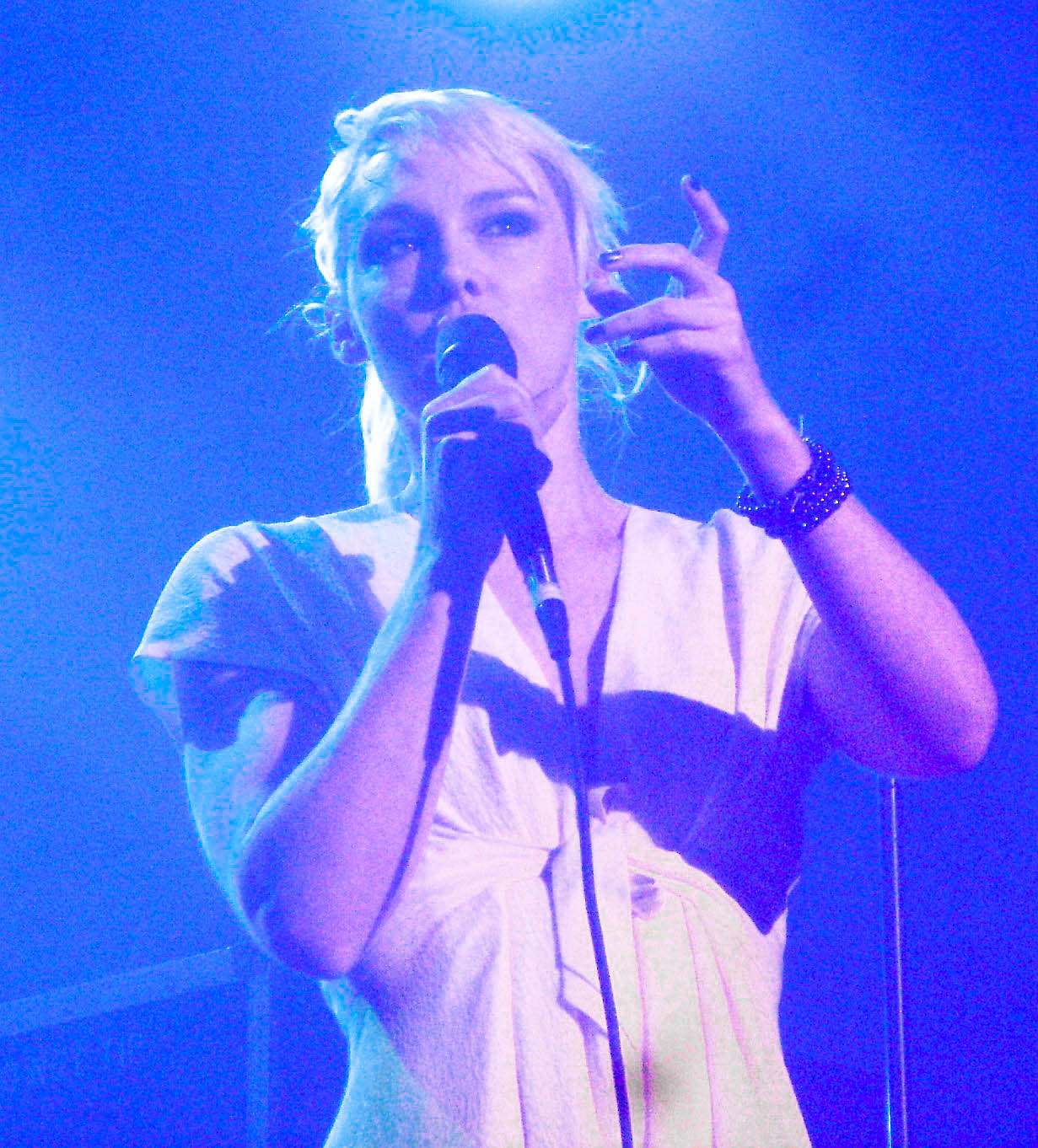 Dutch singer Wende Snijders in the HMH, December 3, 2009